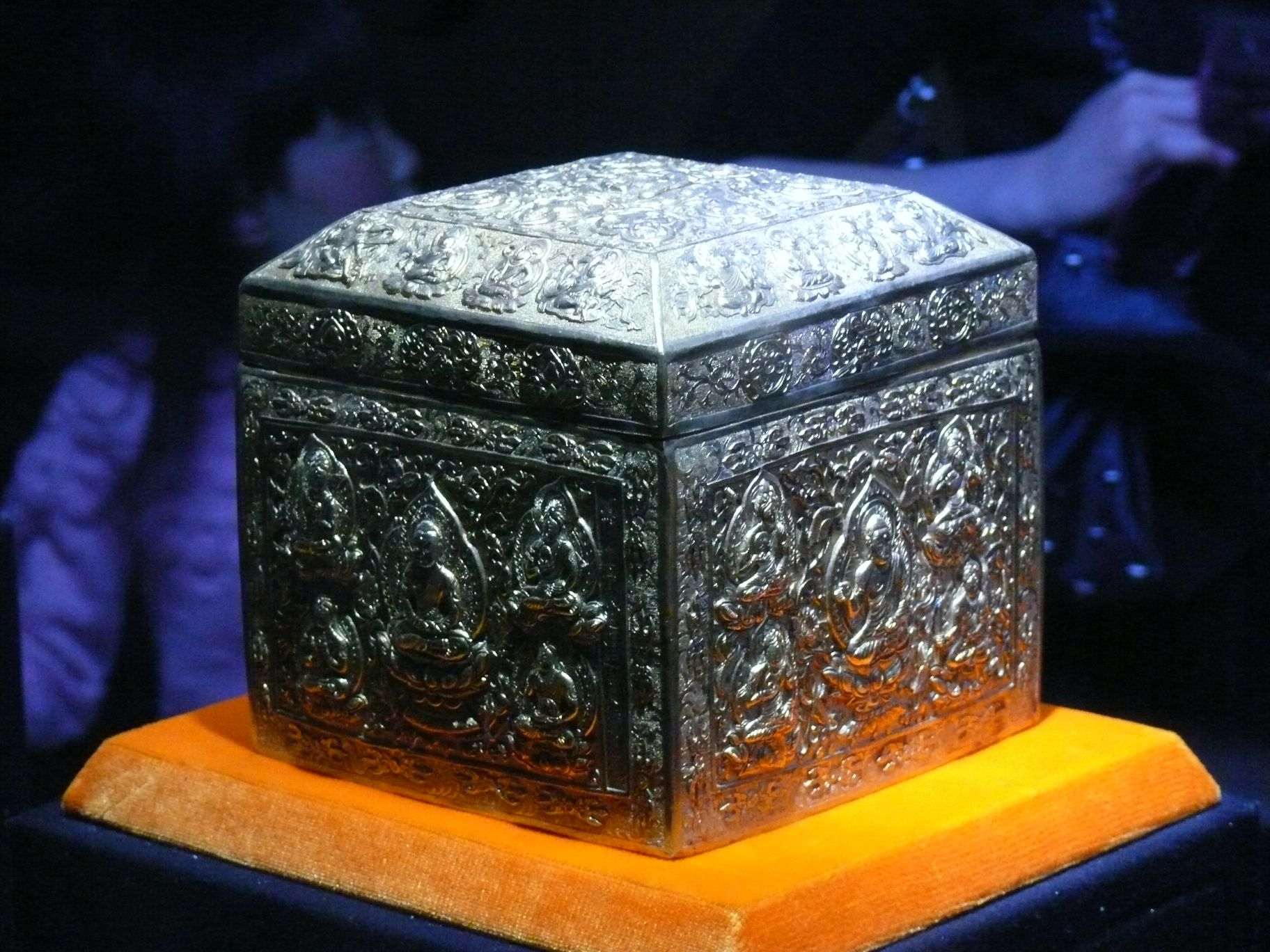 Famen temple in Shaanxi province (China)